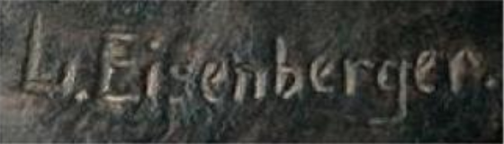 Signature of German sculptor Ludwig Eisenberger